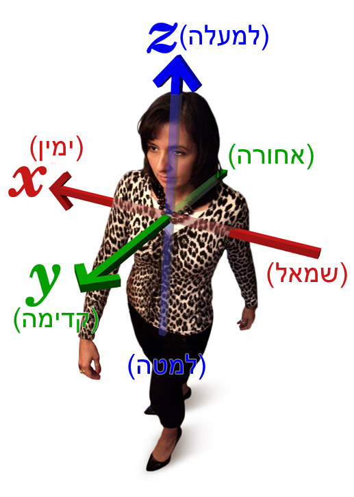 Diagram of Cartesian axes applied to a human being